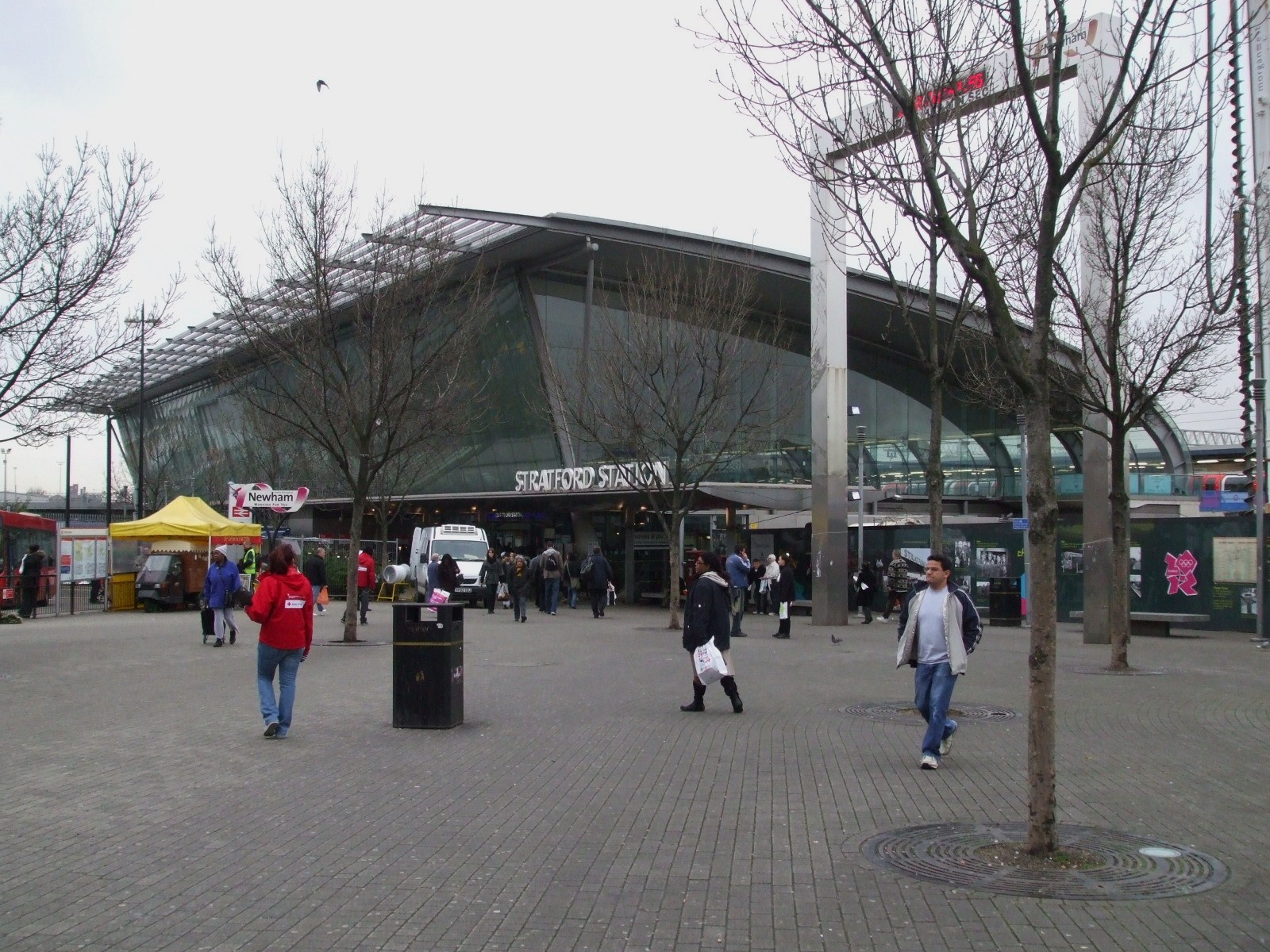 Stratford station frontage